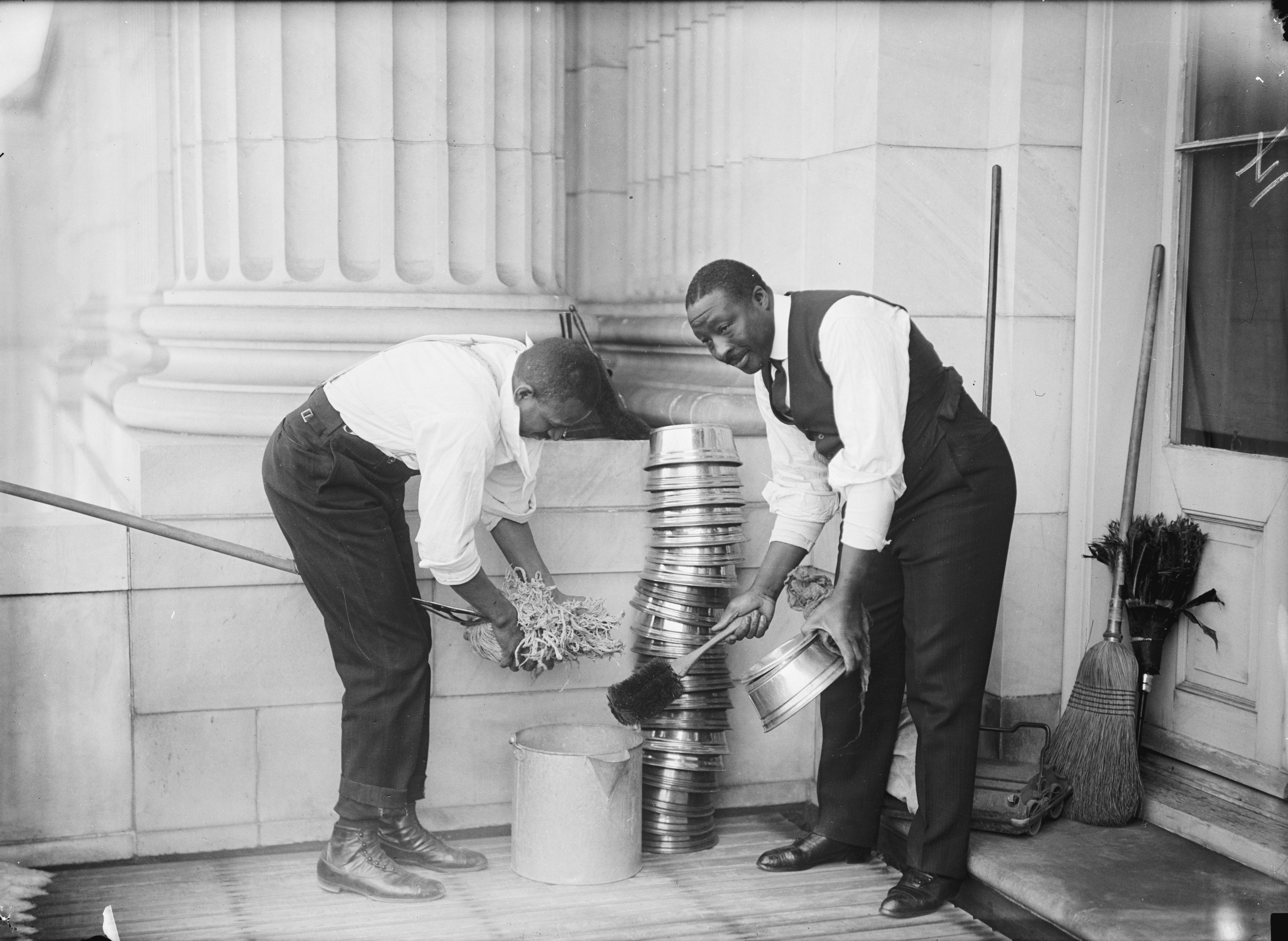 "CAPITOL, U.S. CLEANING INTERIOR". 1914 photo shows two African-American men doing janitorial work at the U.S. Capitol. One on left has a mop and bucket; the one on right has a stack of spittoons and a cleaning brush. To the right are two brooms and a carpet sweeper.